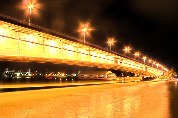 Branko's bridge at night (Brankov most)